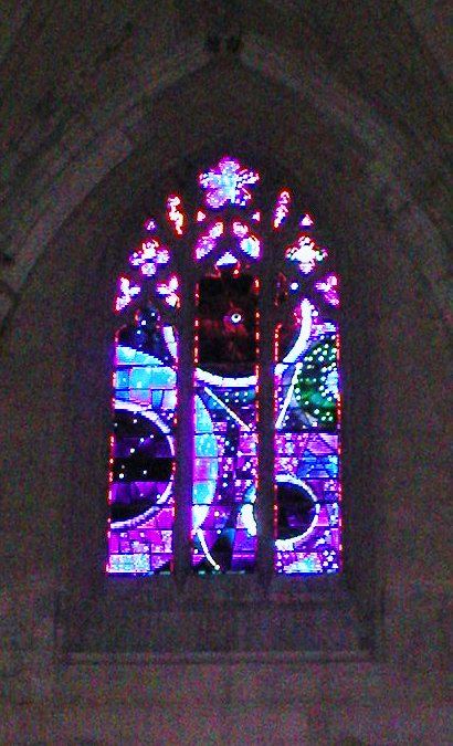 The Space Window from Washington National Cathedral, 2005. Taken up uploader.